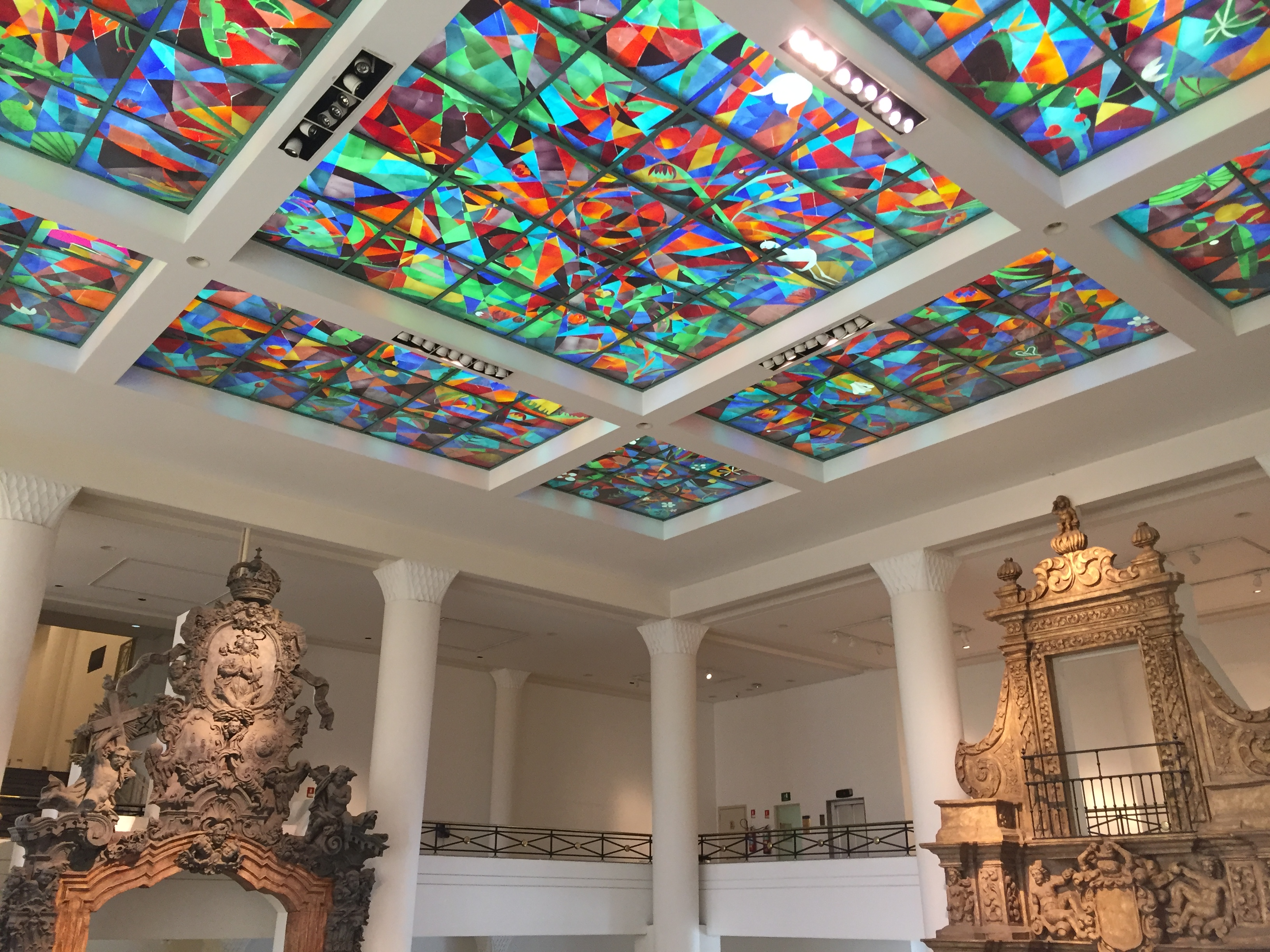 Foto interna do museu